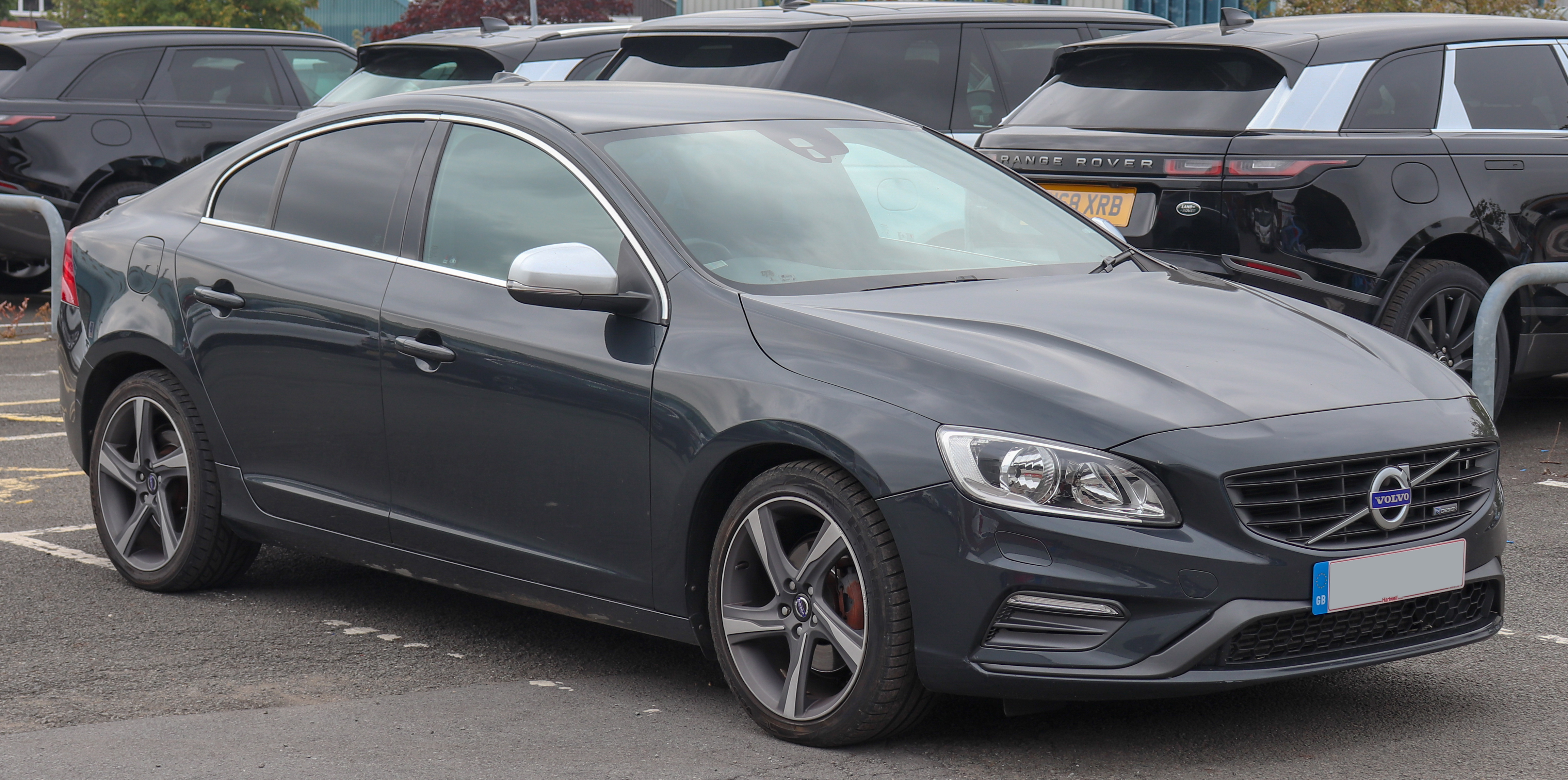 2014 Volvo S60 R-Design D2 Automatic 1.6 Front Taken in Stratford-upon-Avon